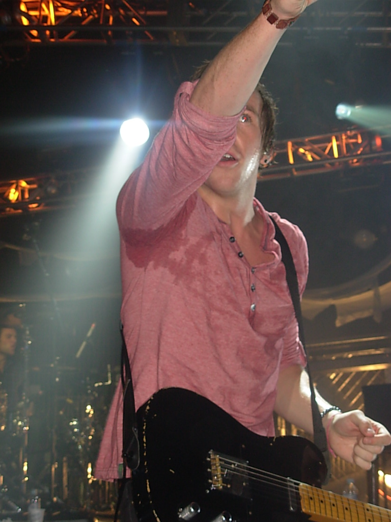 Danny Jones @ UCAP, Cliffs Pavilion.